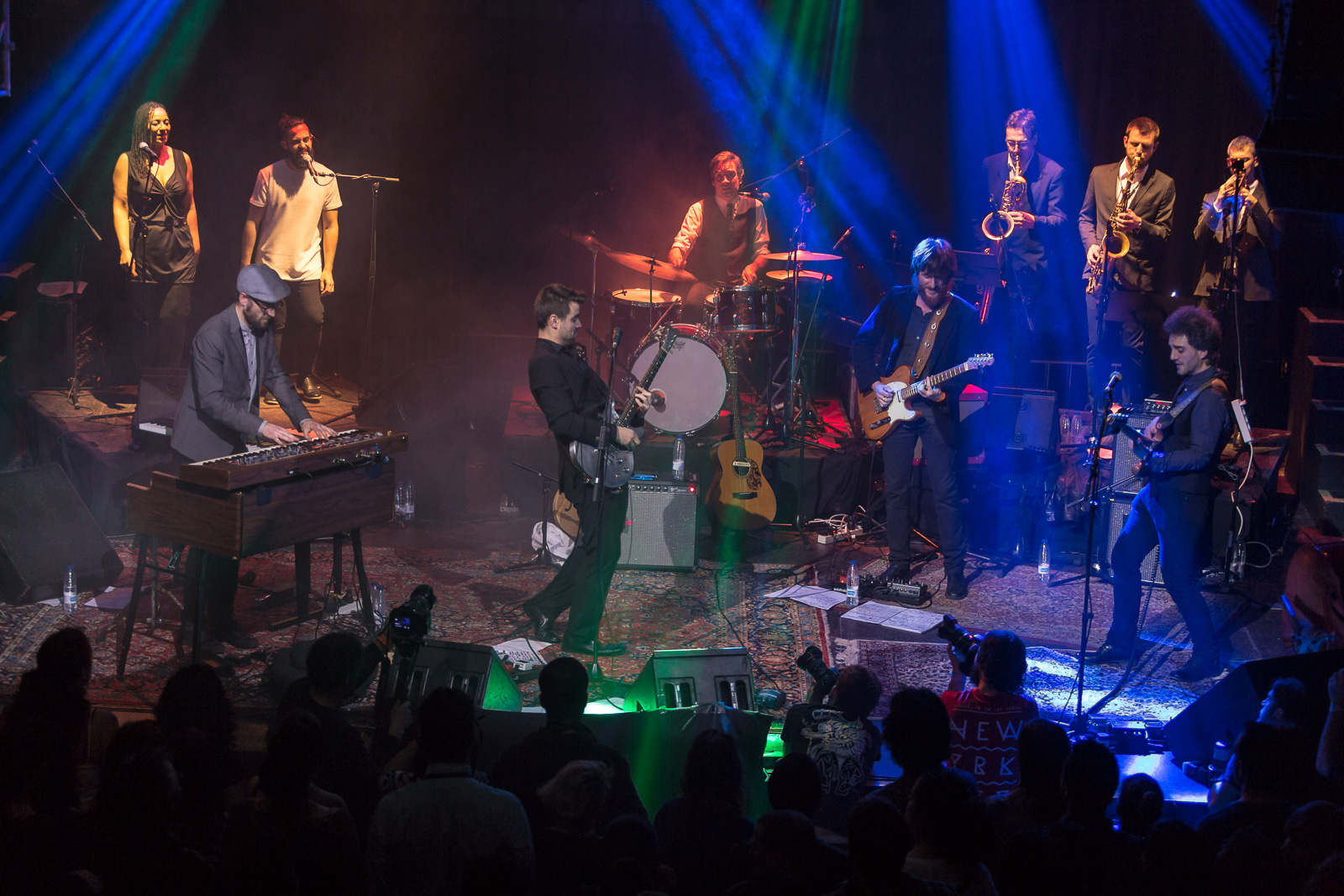 ANAUT playing at Joy Eslava, Madrid. Time goes on Premiere (april 23rd, 2016)